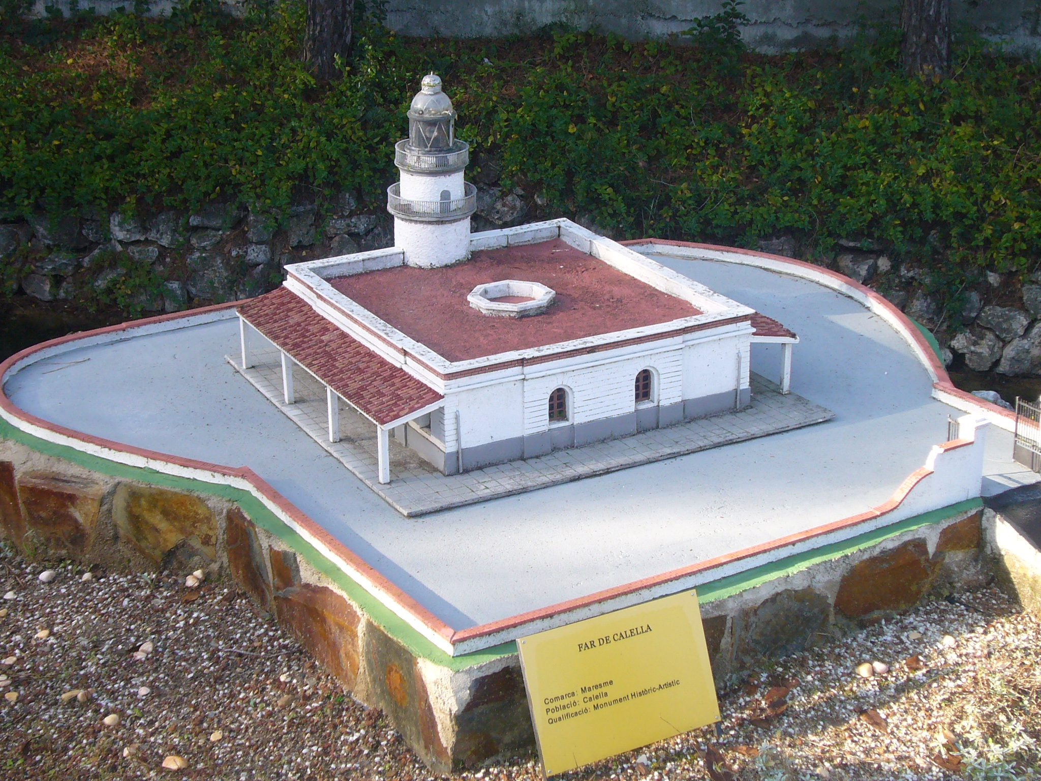 Scale model at the "Catalunya en Miniatura" miniature park : Lighthouse of Calella